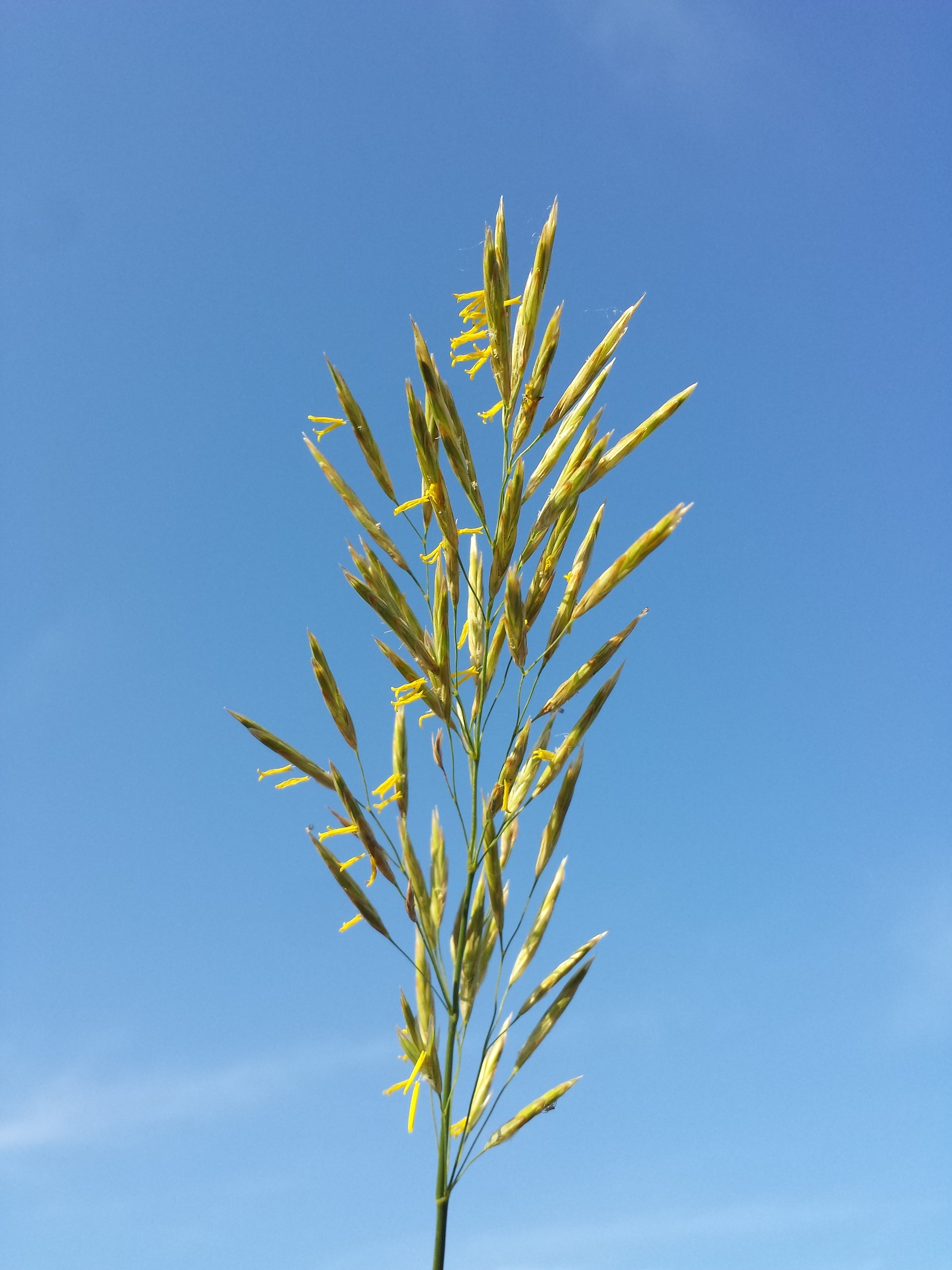 Panicle Taxonym: Bromus inermis ss Fischer et al. EfÖLS 2008 ISBN 978-3-85474-187-9 Location: Floridsdorf rail station, Vienna-Floridsdorf - ca. 160 m a.s.l. Habitat: ruderal meadows